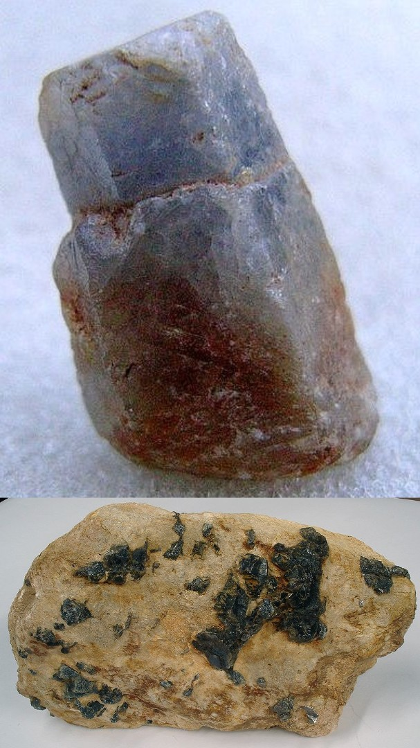 Corundum - rock-forming mineral of pegmatite